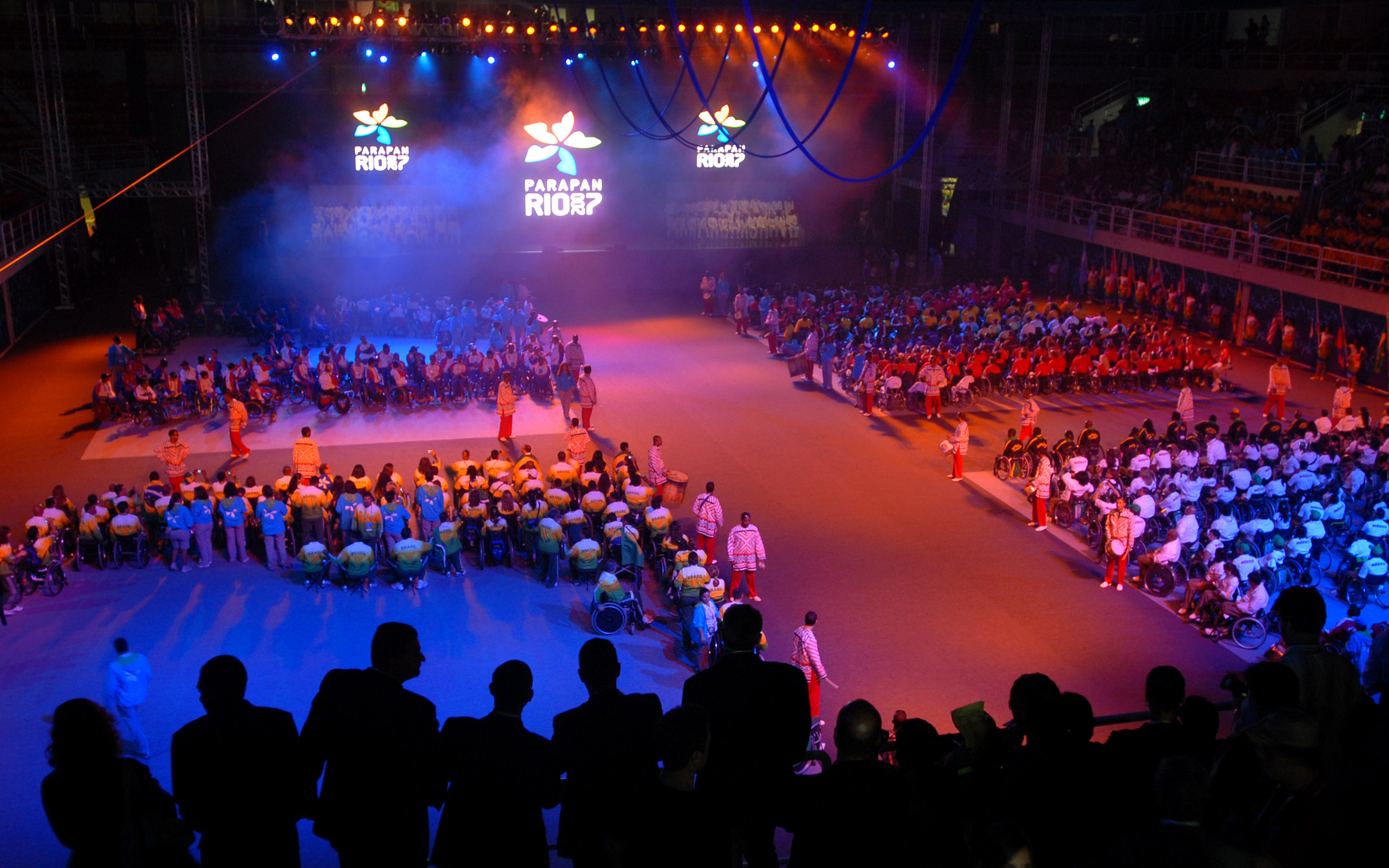 The Opening Ceremony of the 2007 Parapan American Games in Rio de Janeiro.